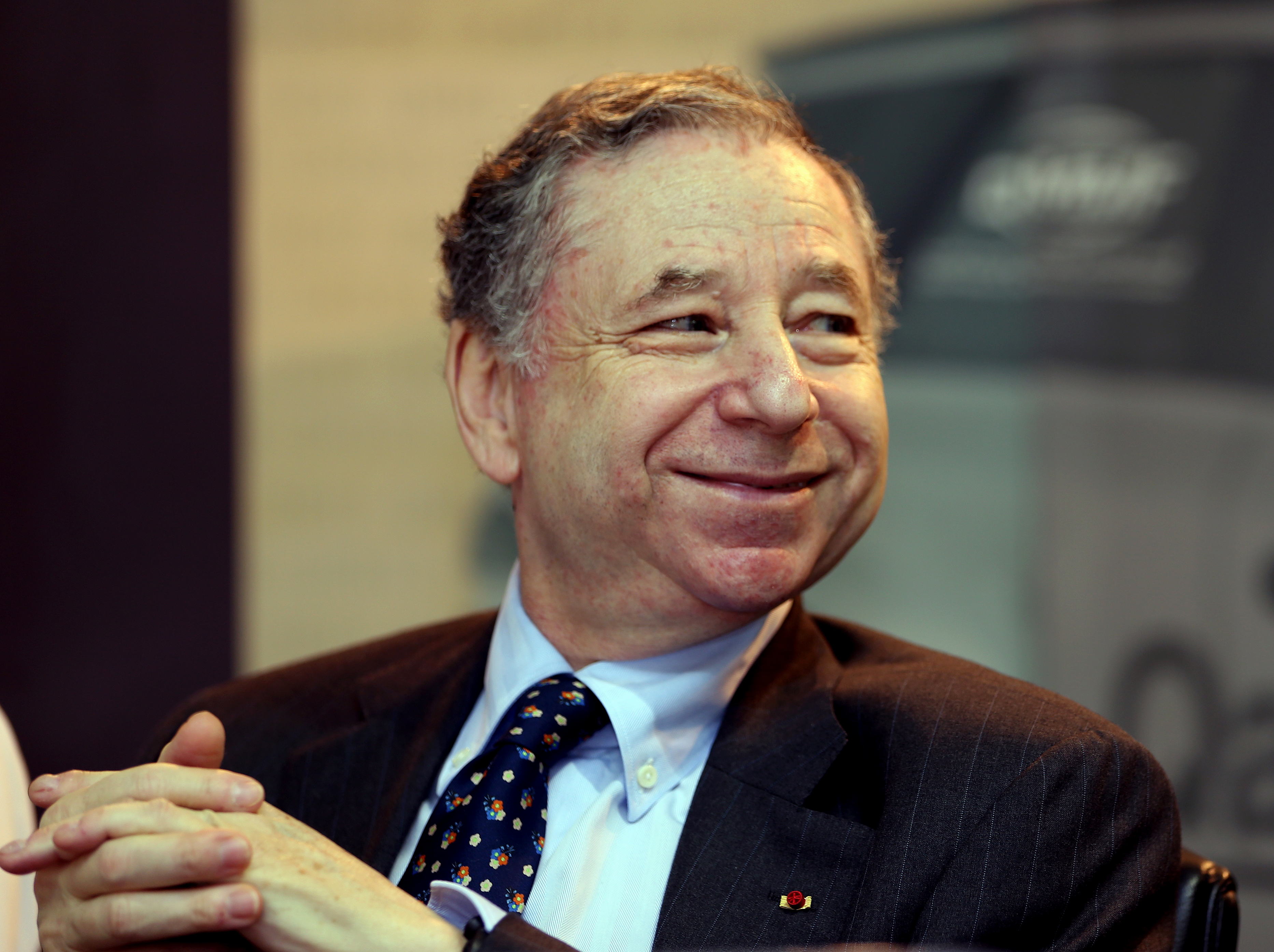 International Motorsport Federation president jean Todt during a visit to Doha. Pic by Vinod Divakaran